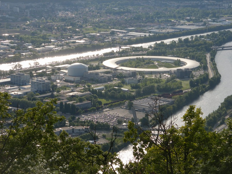 The science polygon is full of interesting research such as cold neutrons, chip fabs, nanotechnology, synchrotron radiation etc.